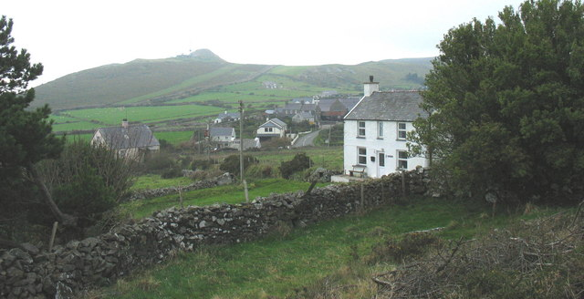 View north across the village of Rhiw